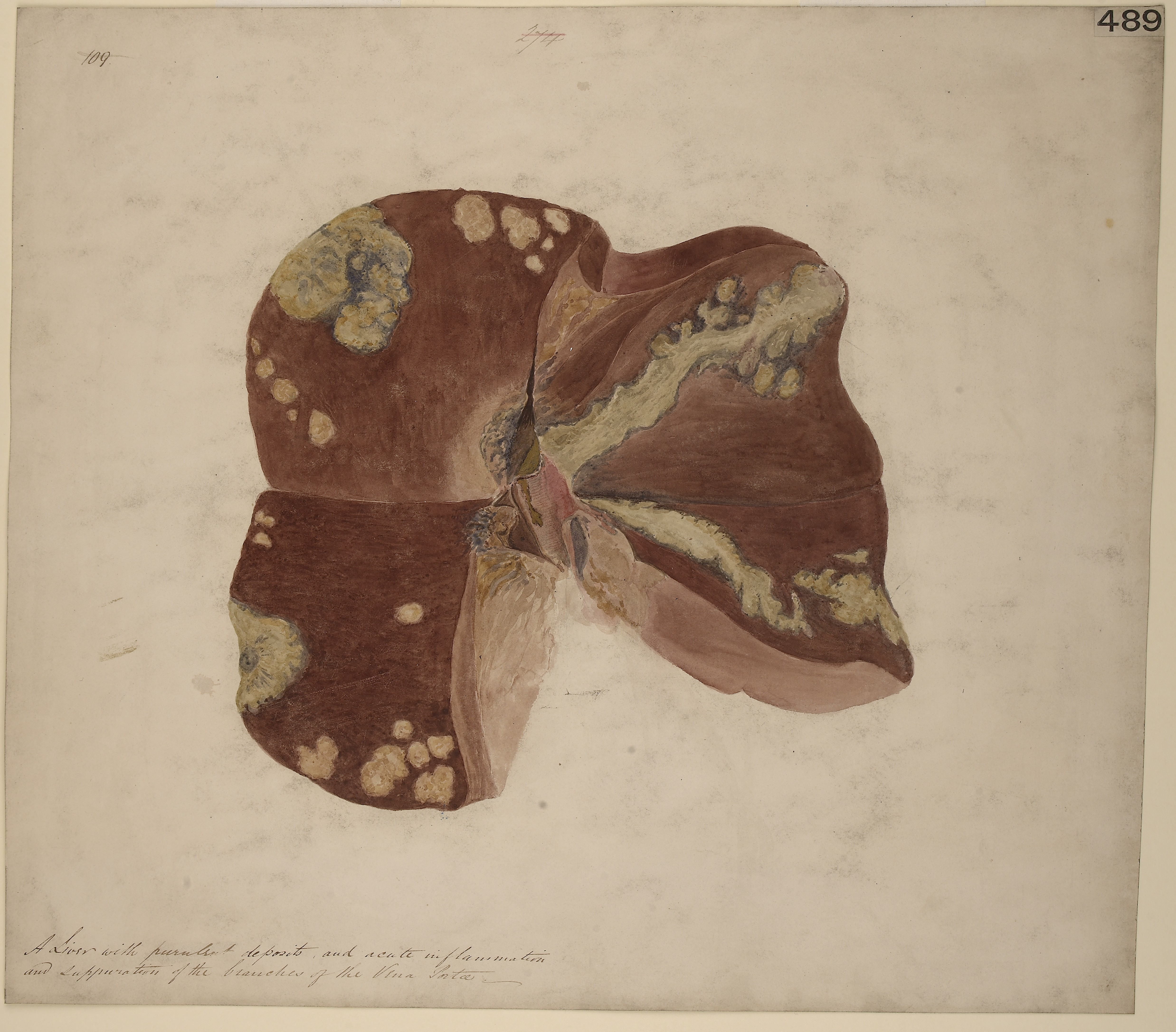 Watercolour drawing showing a liver, with purulent deposits and acute inflammation and suppuration of the branches of the vena portae. Medical Photographic Library Keywords: Delamotte, William Alfred